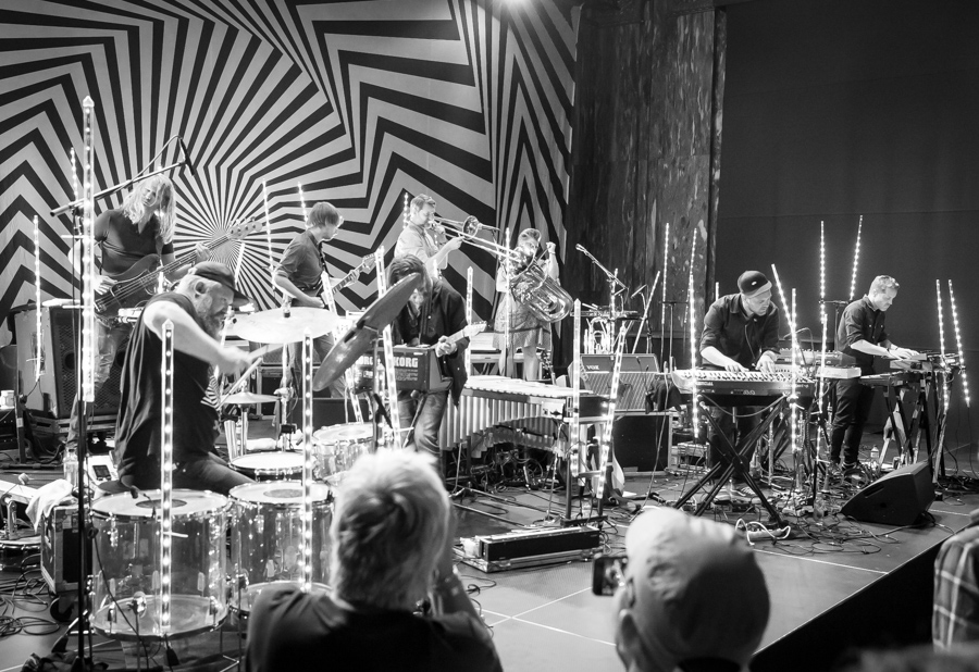 Jaga Jazzist at the stage of Sentralen. The concert was part of the Oslo Jazz Festival in Norway and took place on 16. August 2016. Lineup: Morten Horntveth (drums) Marcus Forsgren (guitar) Andreas Mjøs (vibraphone) Lars Horntveth (guitar) Line Horntveth (flute) Erik Johannessen (trombone) Øystein Moen (keyboard)